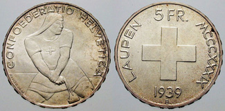 Switzerland Confederation (Confœderatio Helvetica). 1848-present. 1939. AR 5 Swiss francs (14.97 g). 600th anniversary of the Battle of Laupen Commemorative. Man standing facing, holding sling Swiss cross. KM 42.